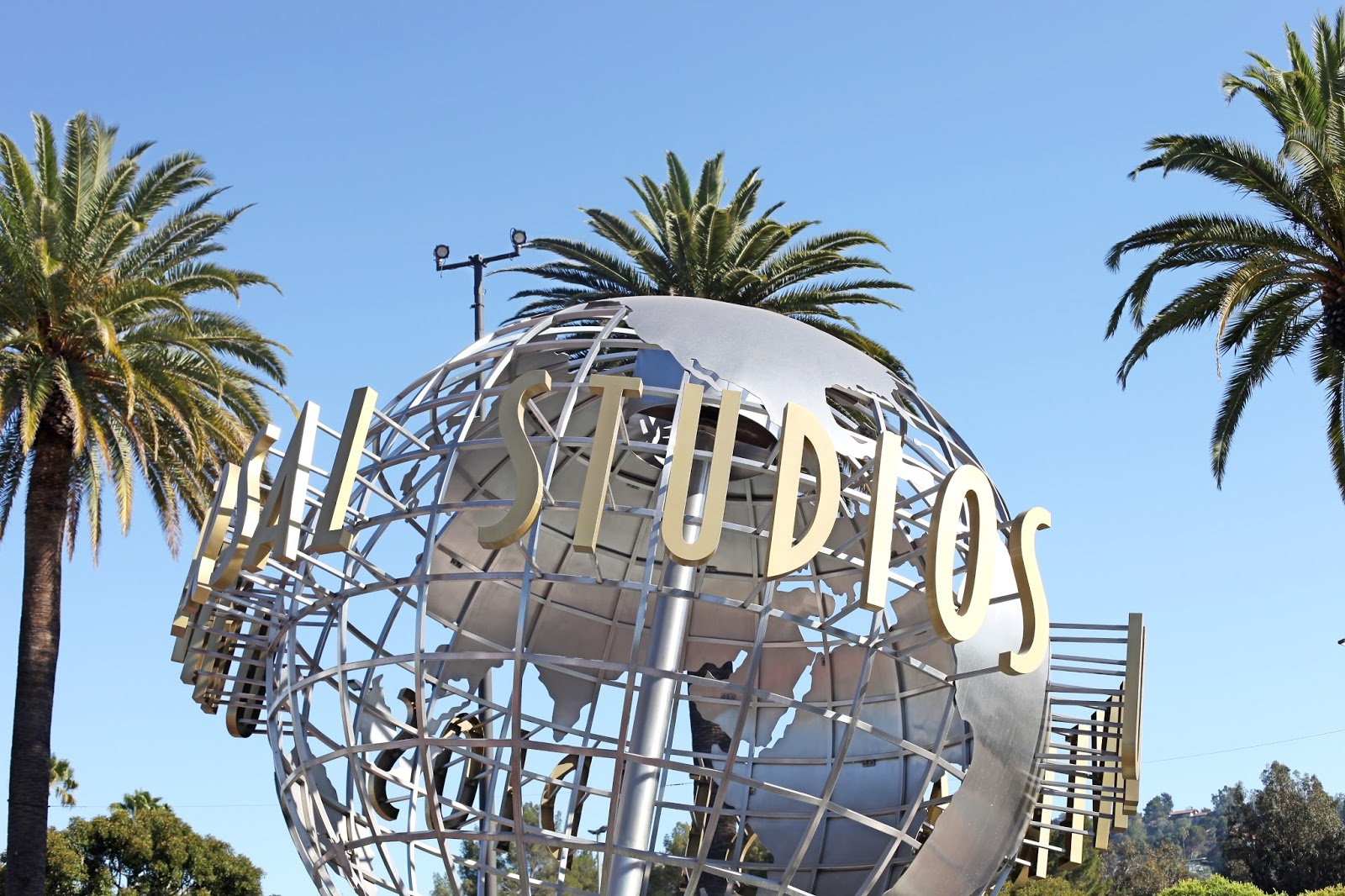 The globe at universal studios